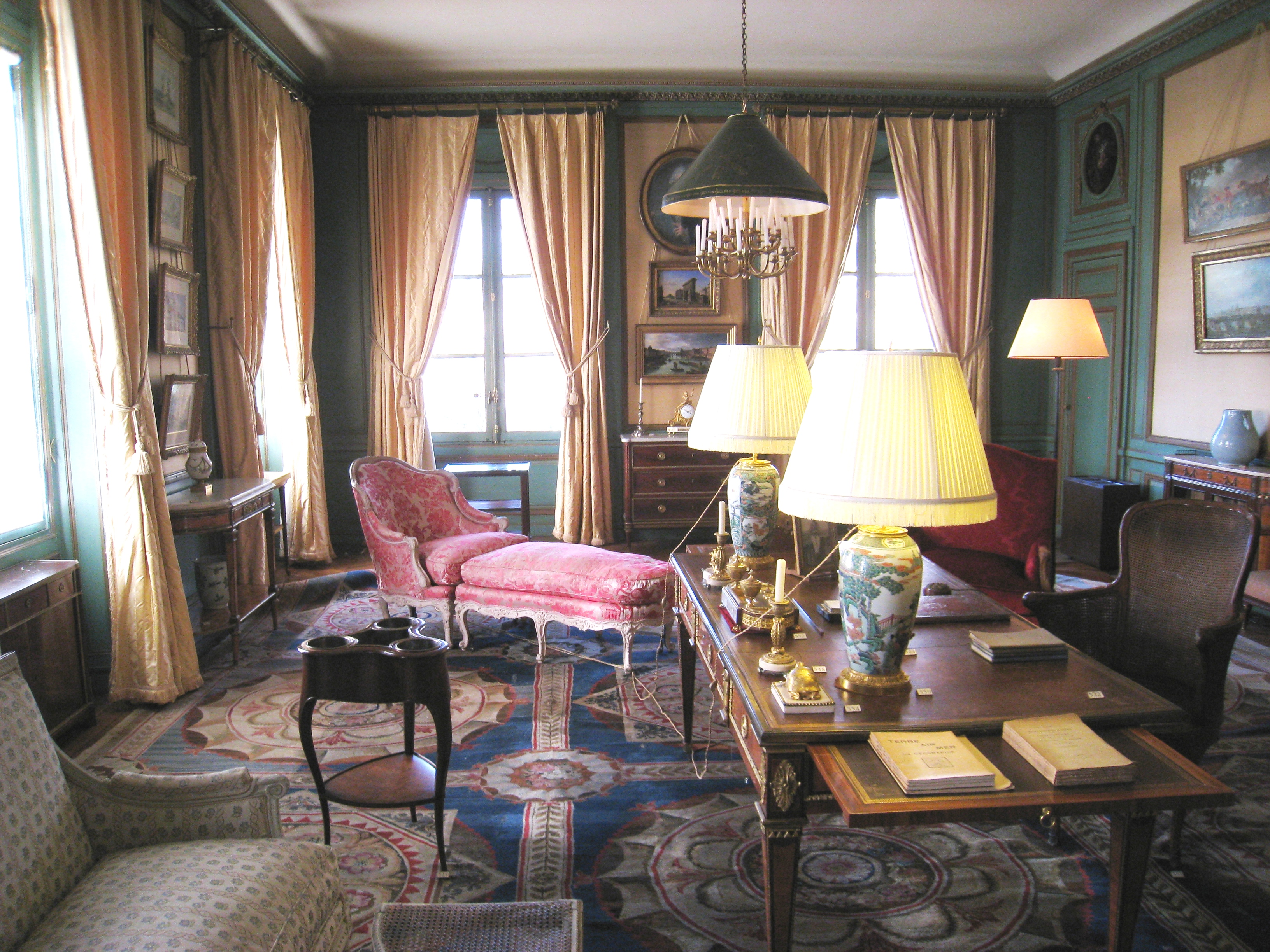 Musée Nissim de Camondo, Paris, France - Salon Bleu. Showing the so called duchesse-brisée type of a chaise longue.